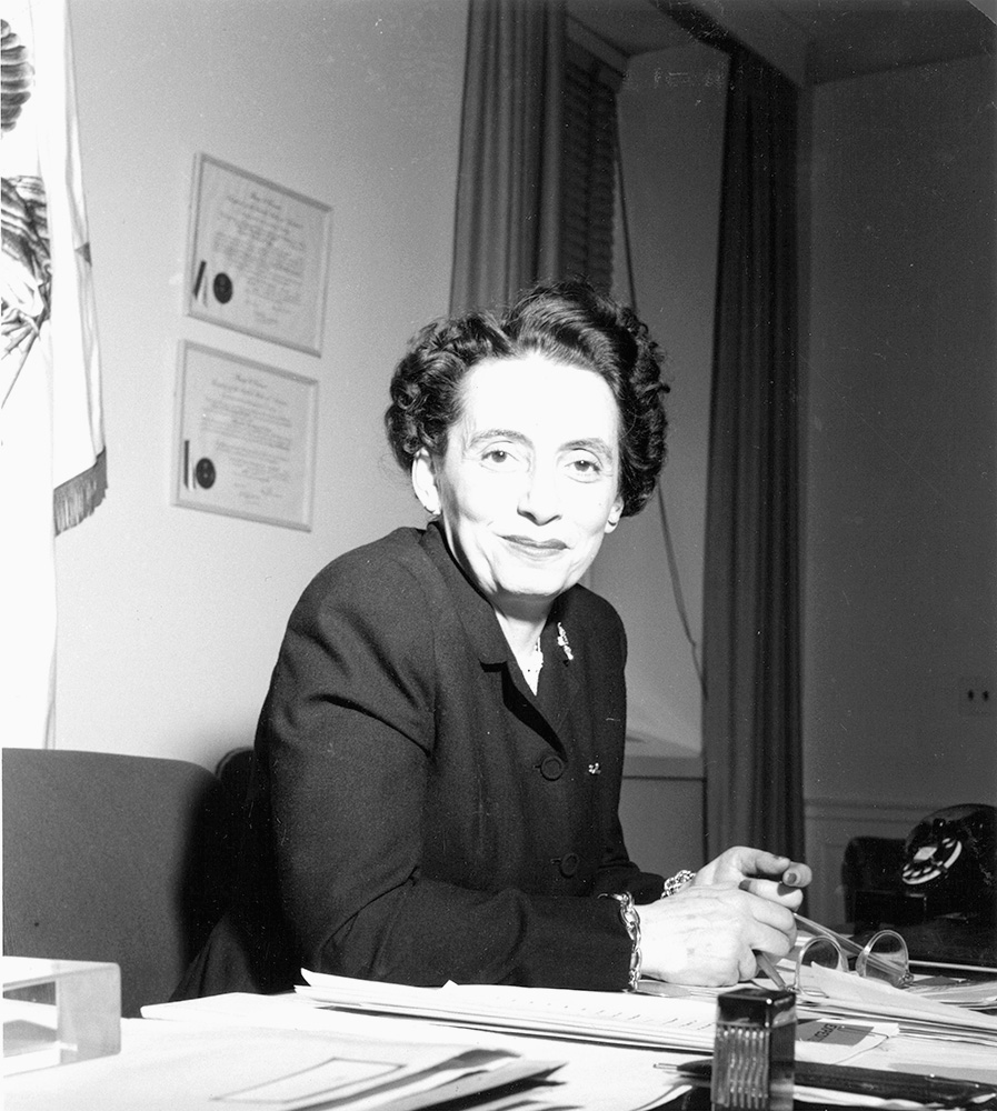 Anna M. Rosenberg, Assistant Secretary of Defense, Manpower and Personnel (1950–1953) at her desk in the Pentagon